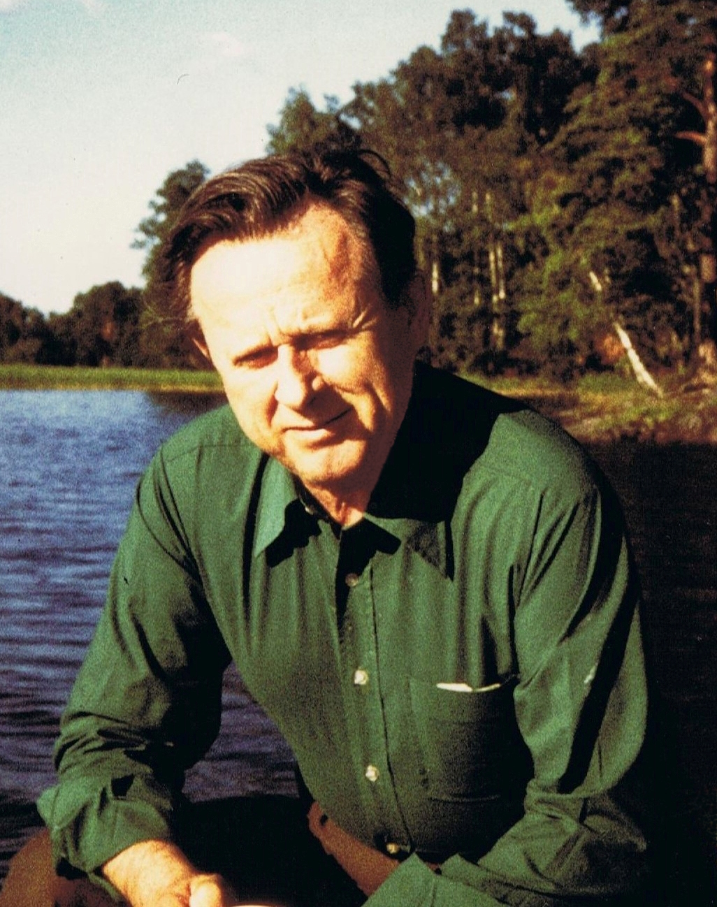 Jerzy Luczak-Szewczyk. Swedish artist born 1923 in Lublin, Poland. Deceased 1975 in Örebro, Sweden.